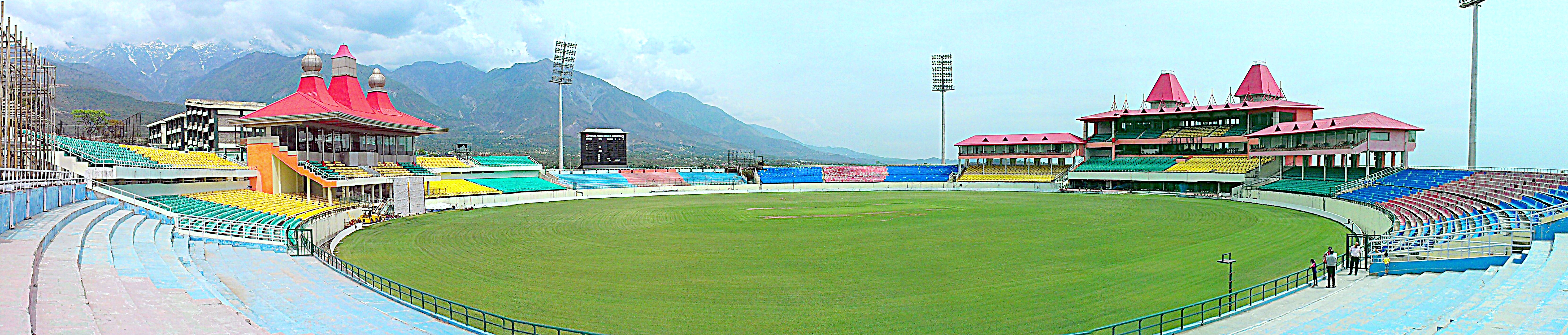 Panorama of dharamshala stadium,himachal pradesh